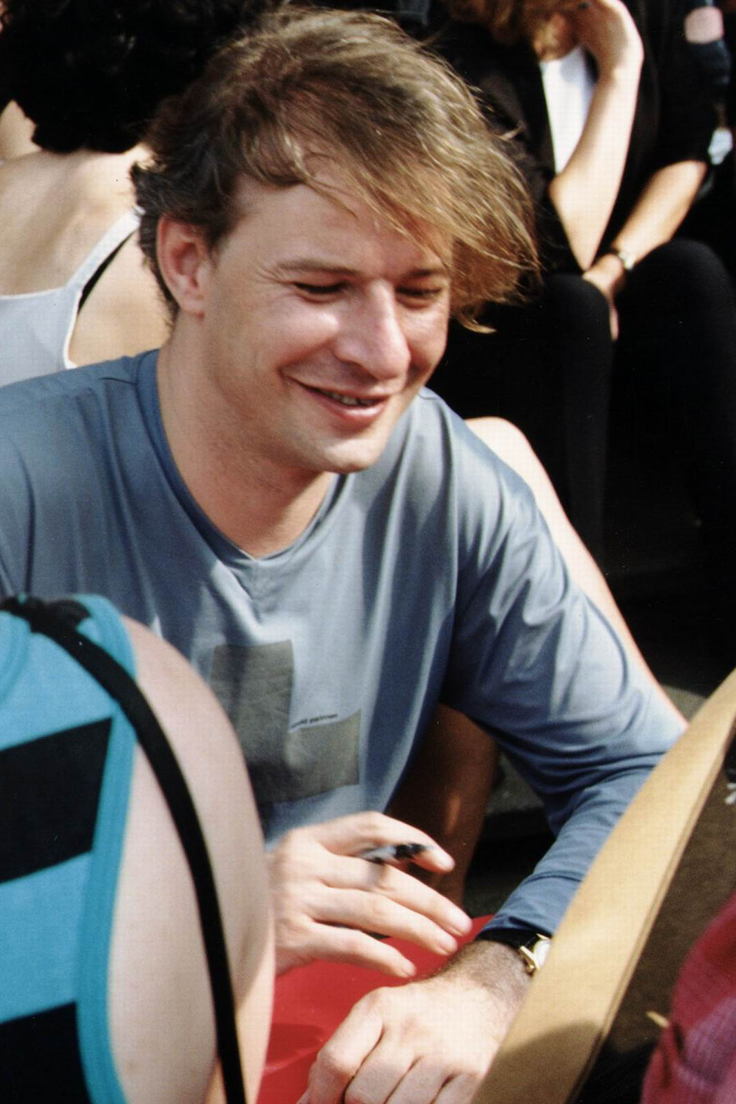 German theatre and film director Leander Haußmann, who was director of the Bochum Theatre from 1995 to 2000, signs autographs at the time of his departure from that post.